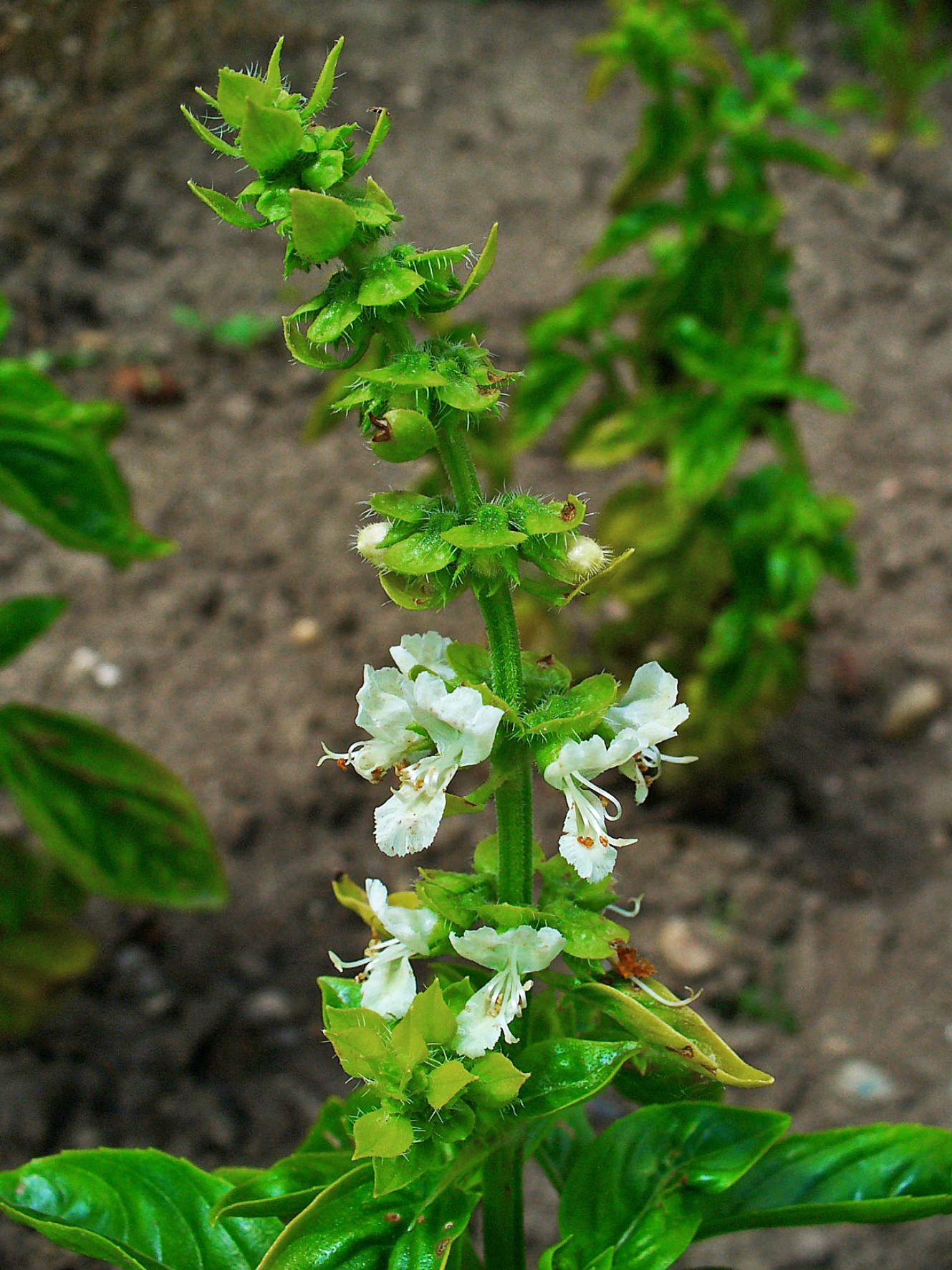 Ocimum basilicum, Lamiaceae, Sweet Basil, inflorescence.